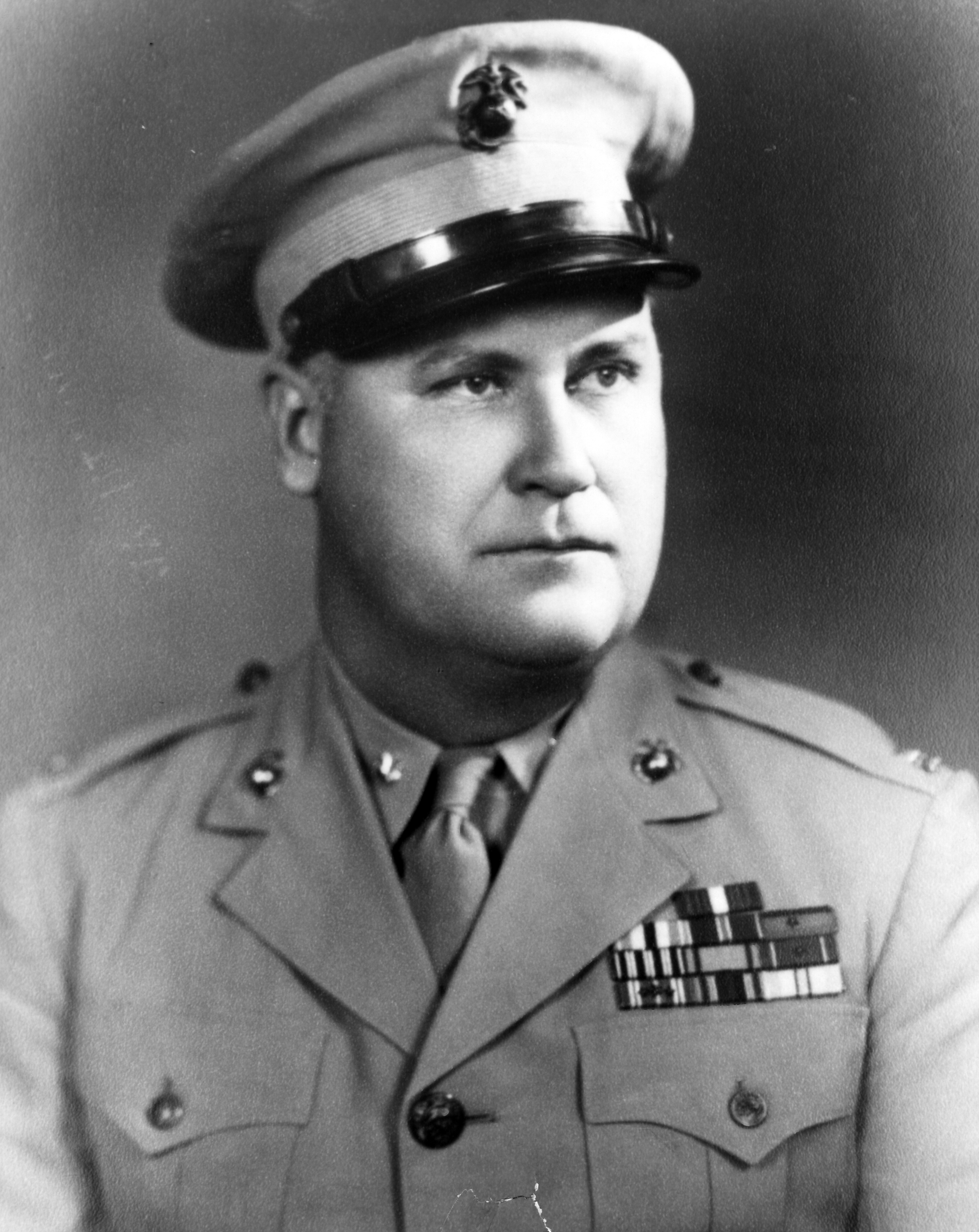 Fred Dale Beans (November 3, 1906 - September 13, 1980) was a highly decorated officer of the United States Marine Corps with the rank of Brigadier General, who is most noted as Commanding Officer of the 3rd Marine Raider Battalion during Bougainville Campaign. He was the father of Brigadier general James D. Beans.